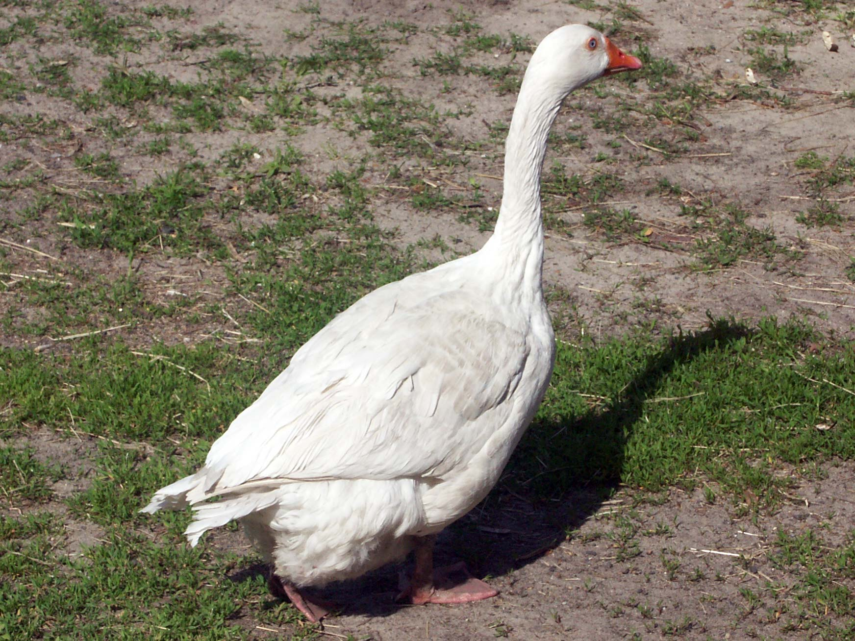 Domesticated goose